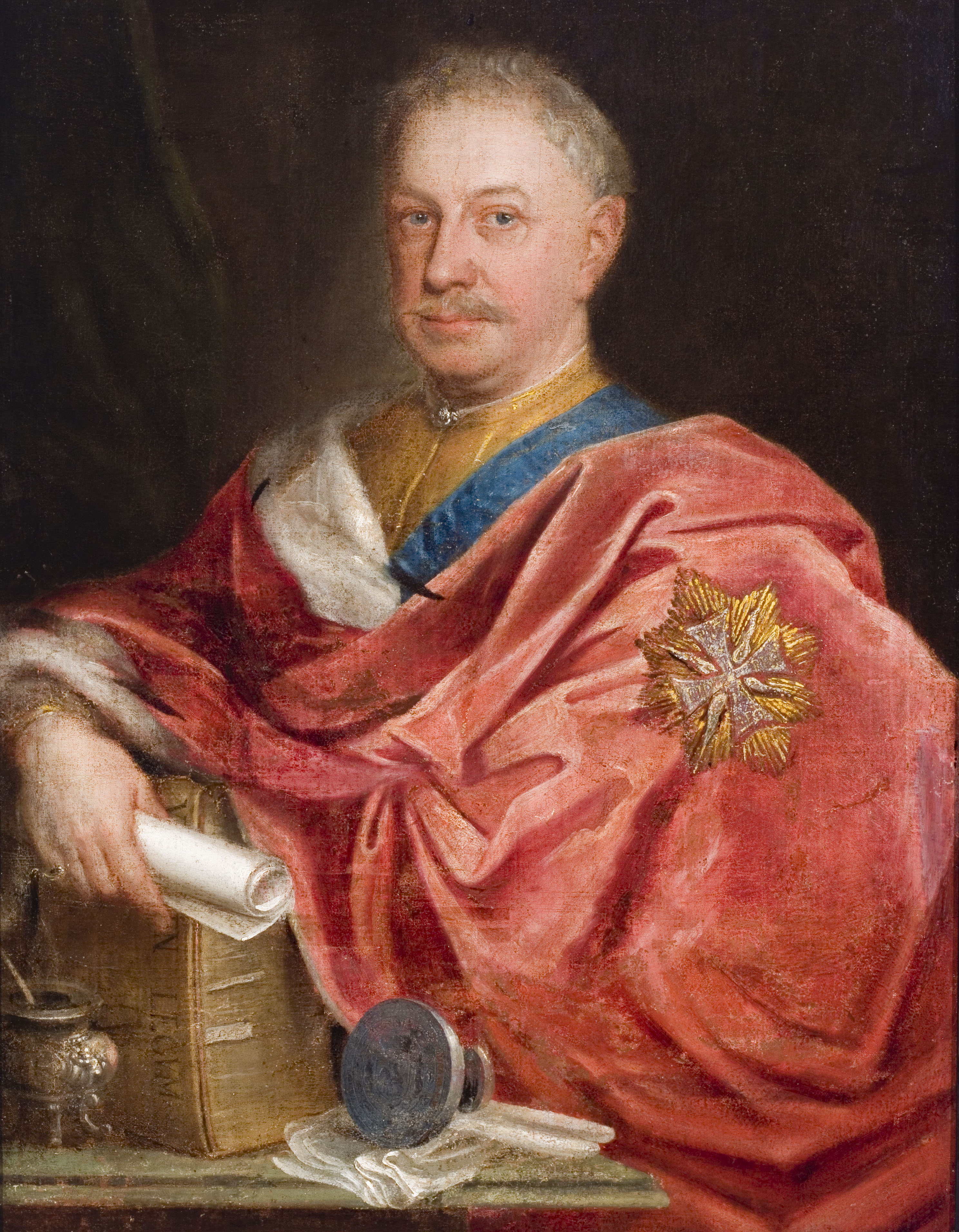 Portrait of Jan Fryderyk Sapieha (1680-1751)